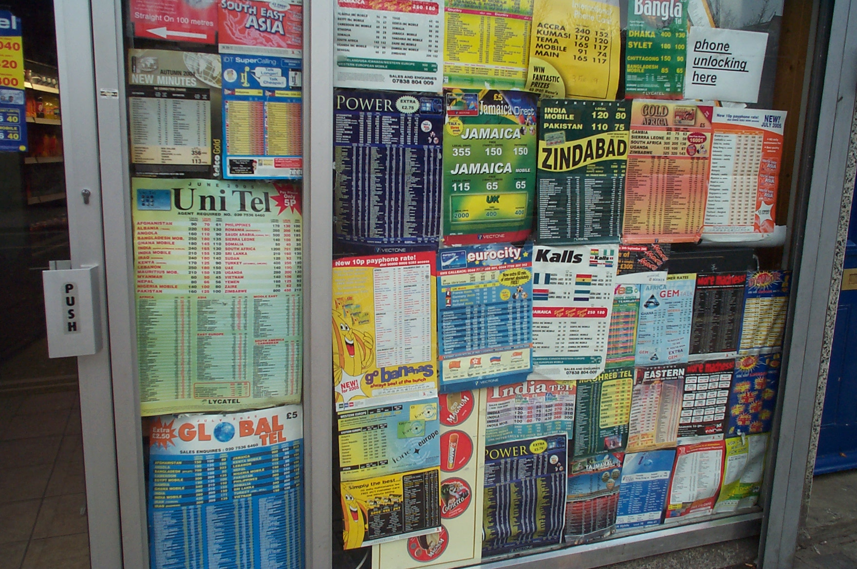 advertisements for telephone cards seen in the window of a shop in Oxford, England.